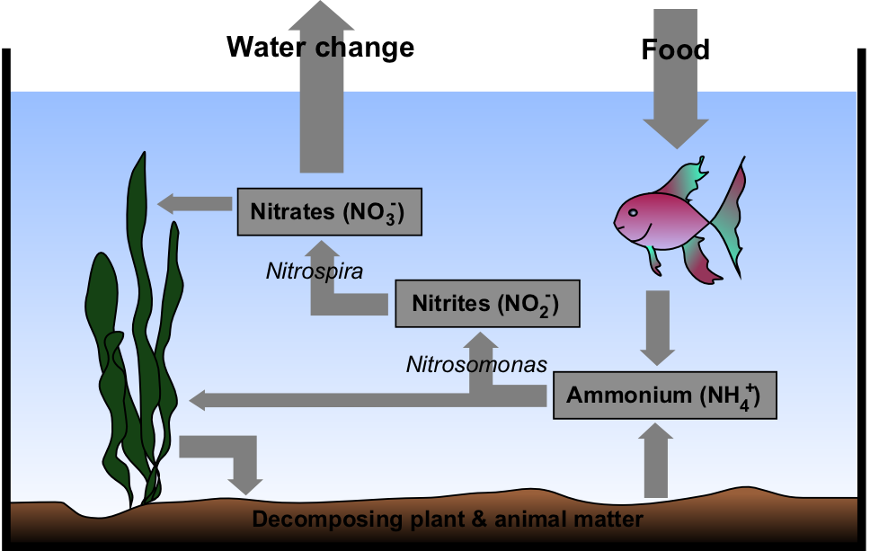 Diagram of the nitrogen cycle in an aquarium. Drawn in Sodipodi by Ilmari Karonen, SVG original available at [1].